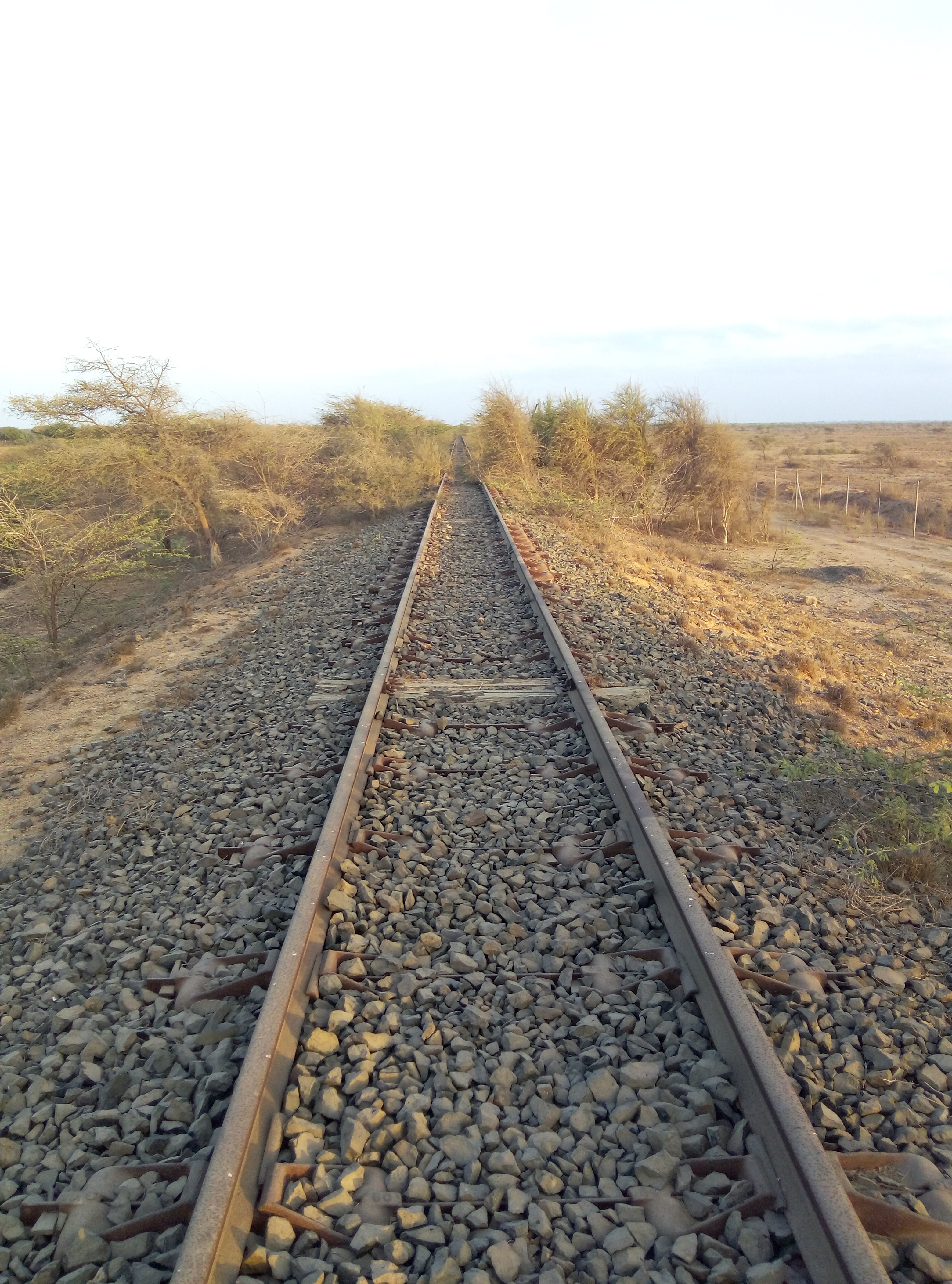 Railway network